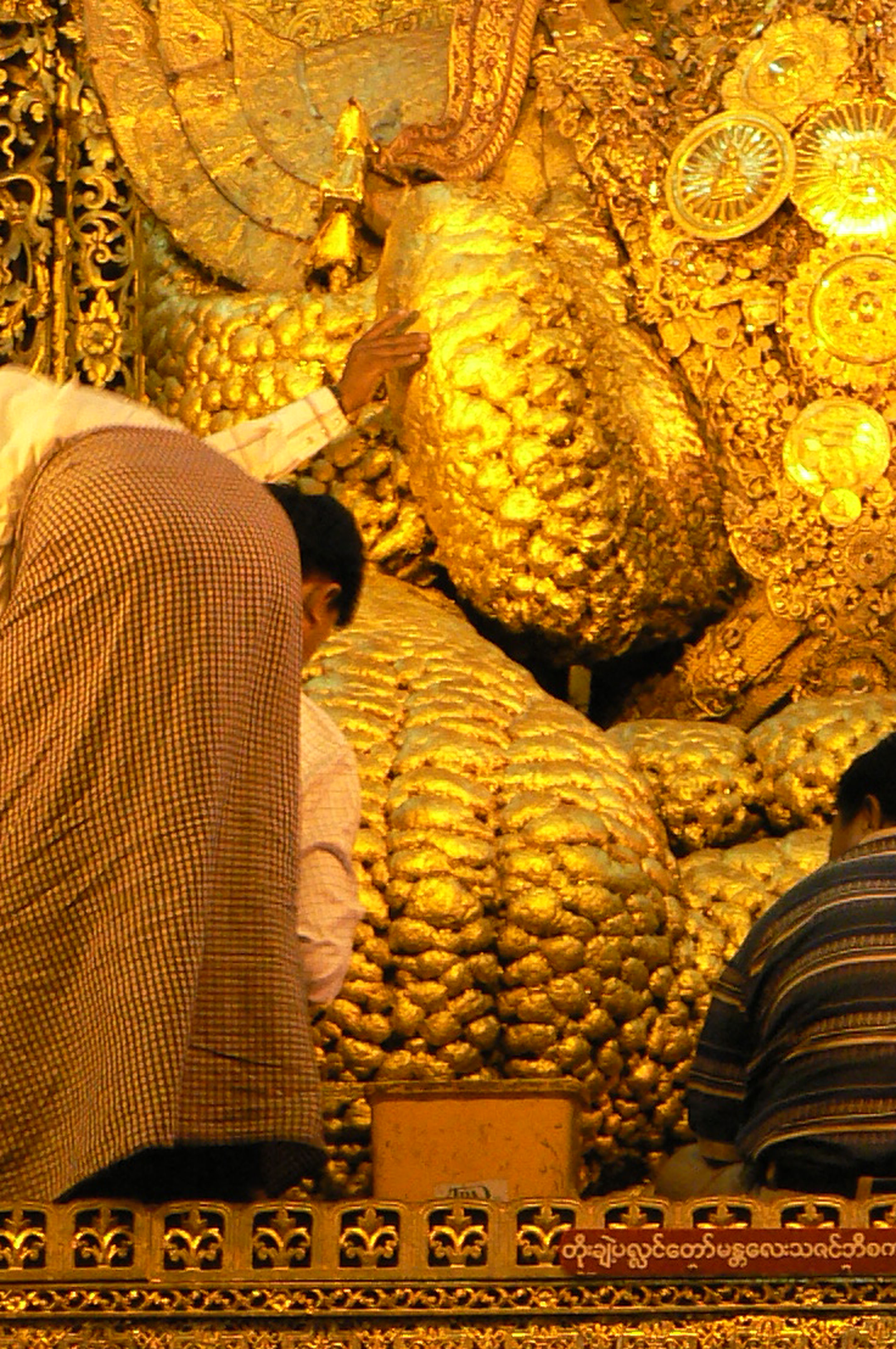 Close up of the right hand from Buddha_00007.jpg file. Look at the thick layer of gold on it.